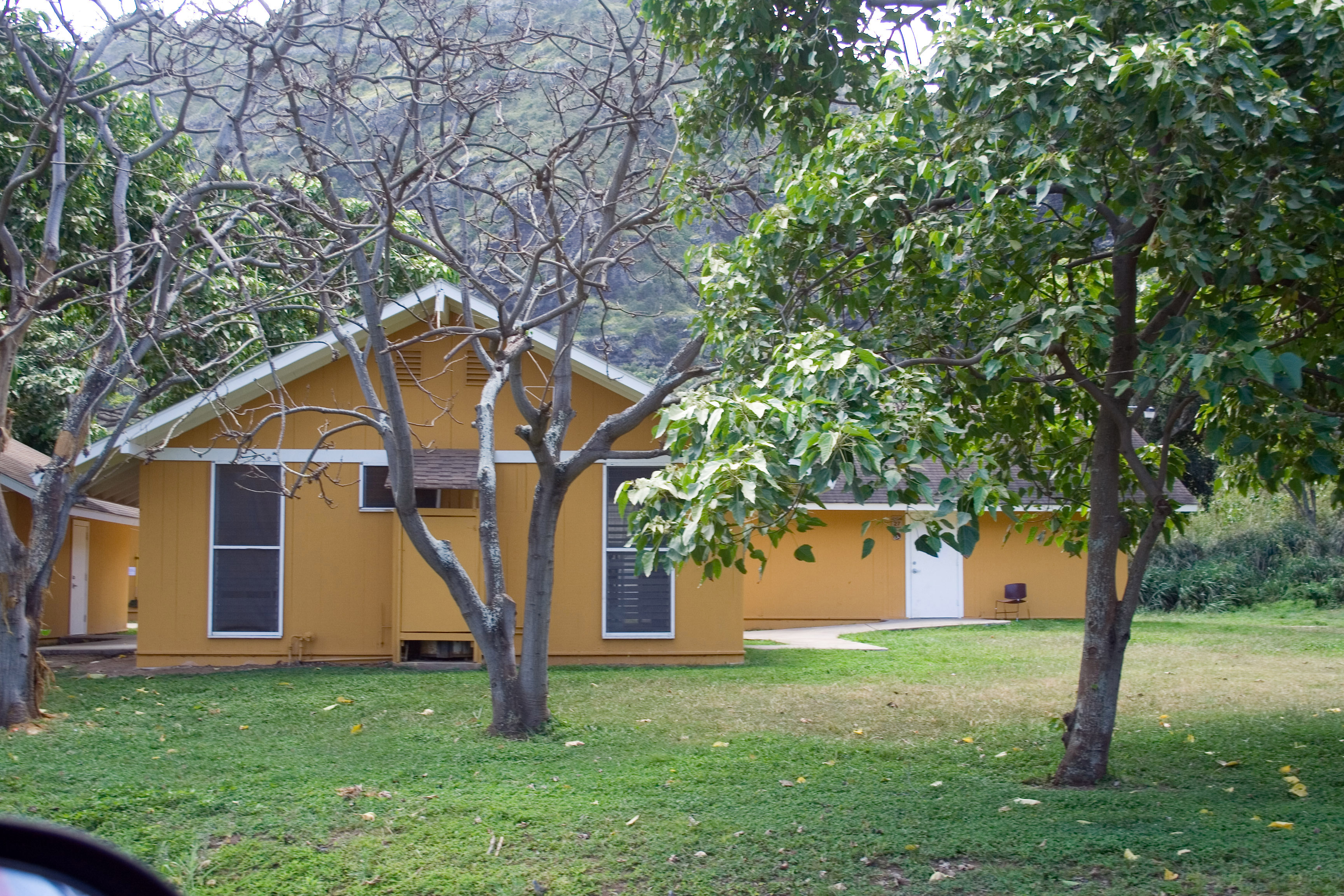 Other's camp from LOST